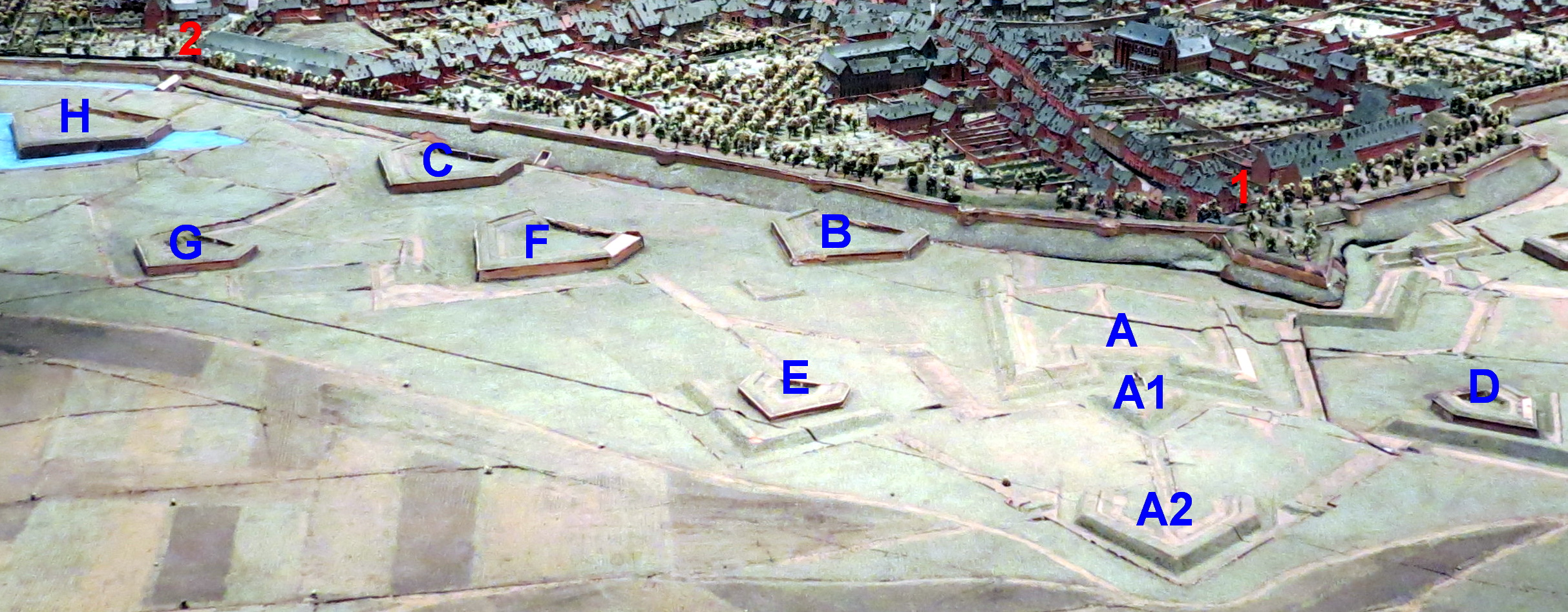 Detail of the original Maquette of Maastricht with a view of the fortifications of the city. The scale model was built around 1750 for King Louis XV of France (now in the Palais des Beaux-Arts in Lille). The area depicted here is the Hoge Fronten fortifications between Brussels Gate (1) and Lindenkruis Gate (2).